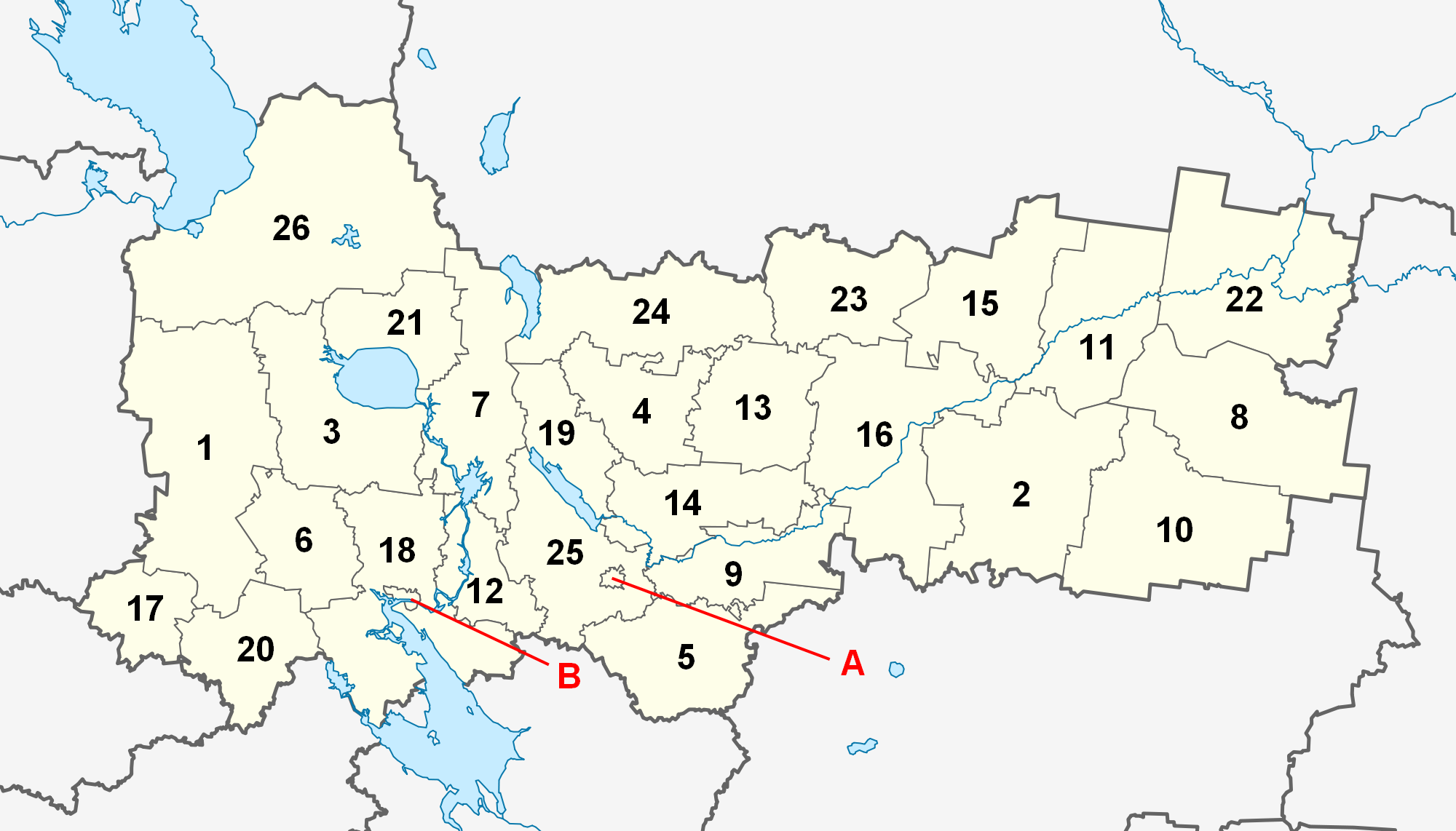 Numbered map of Vologda Oblast